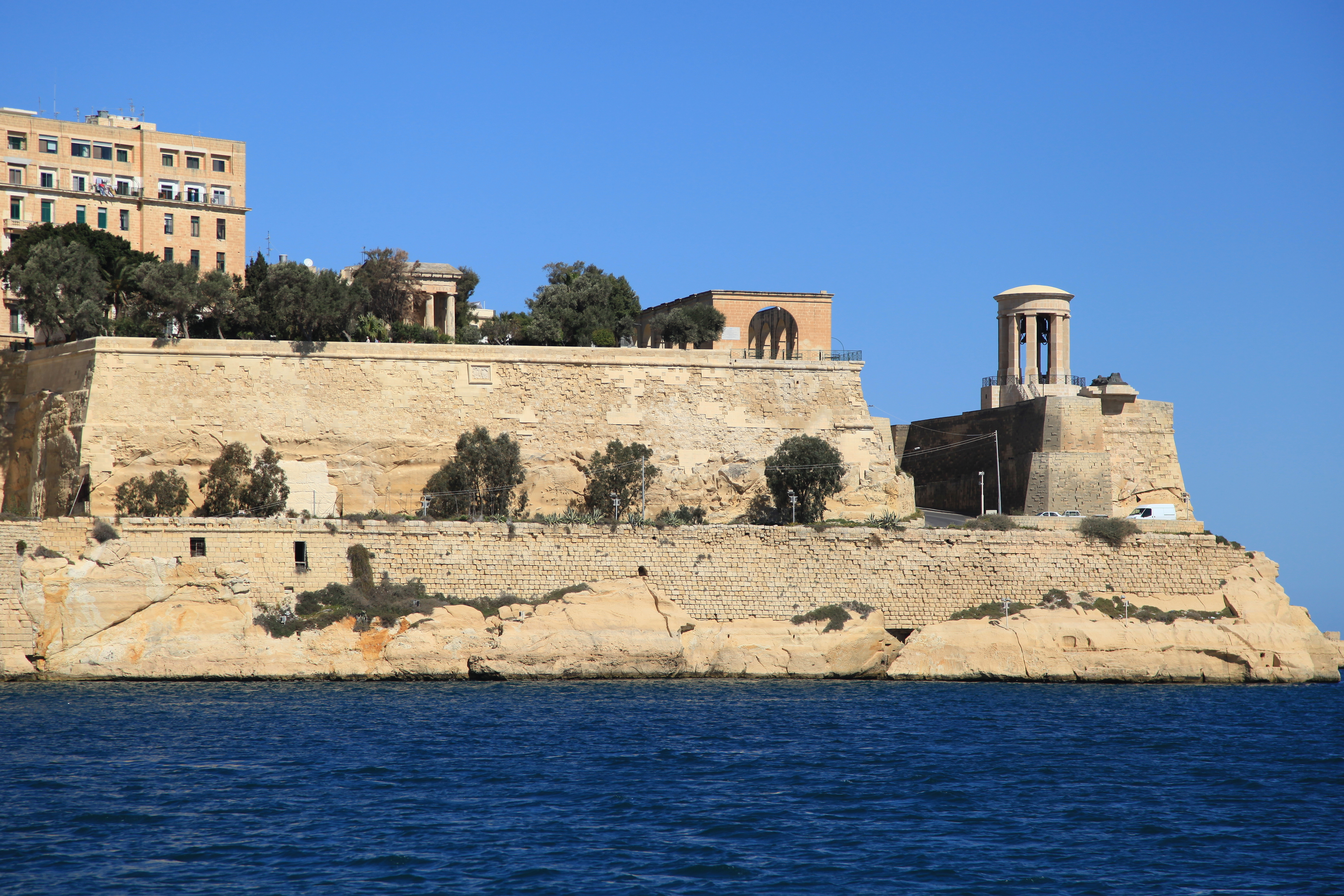 View from a Malta sightseeing two harbours cruise boat to the Lower Barrakka Gardens and the Siege Bell War memorial at Triq il-Mediterran/Triq il-Lanċa in Valletta, Malta